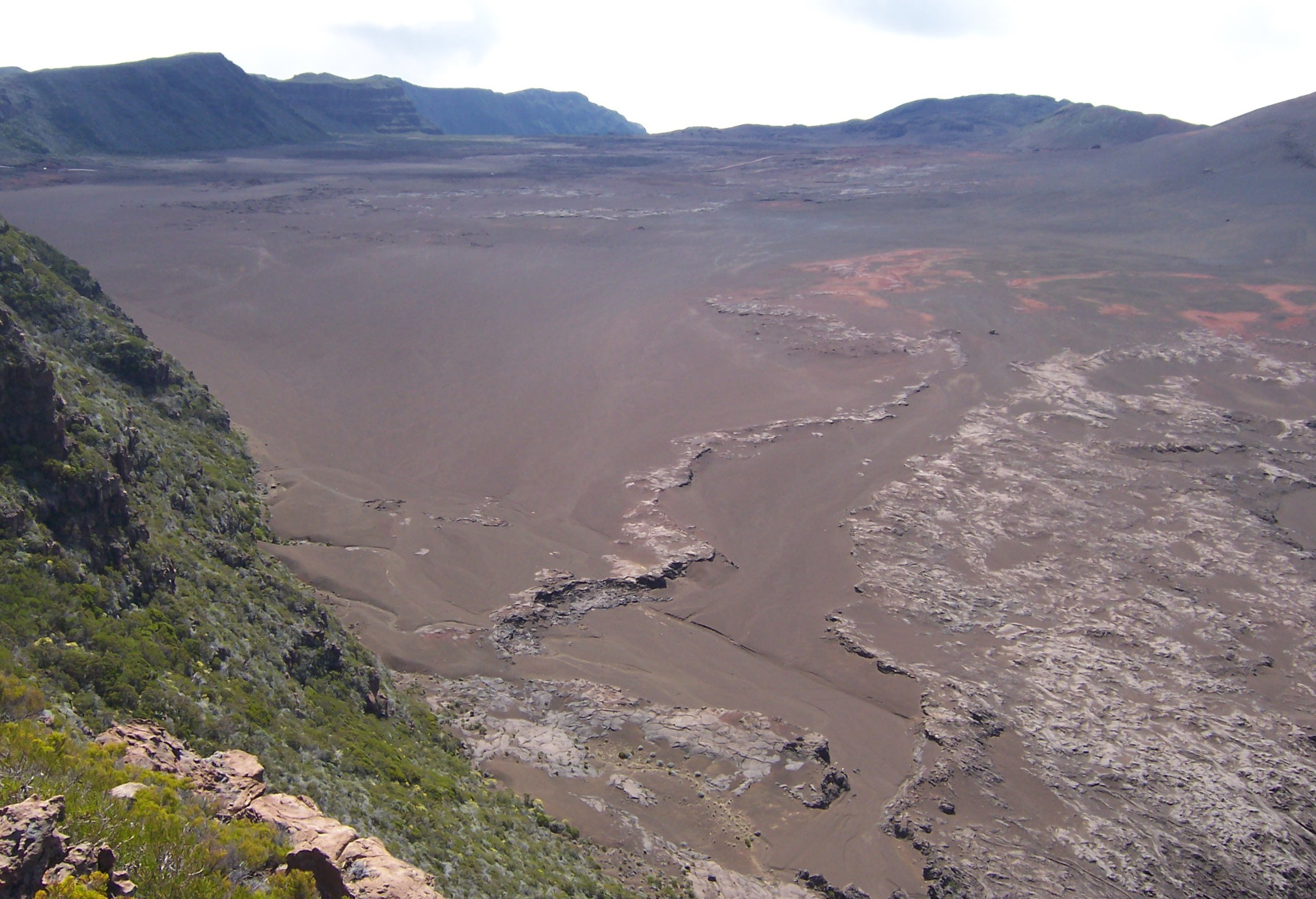 Plaine des Sables (view from Morne Langevin) Photo : B.navez - 15 APR 2006 - Réunion island